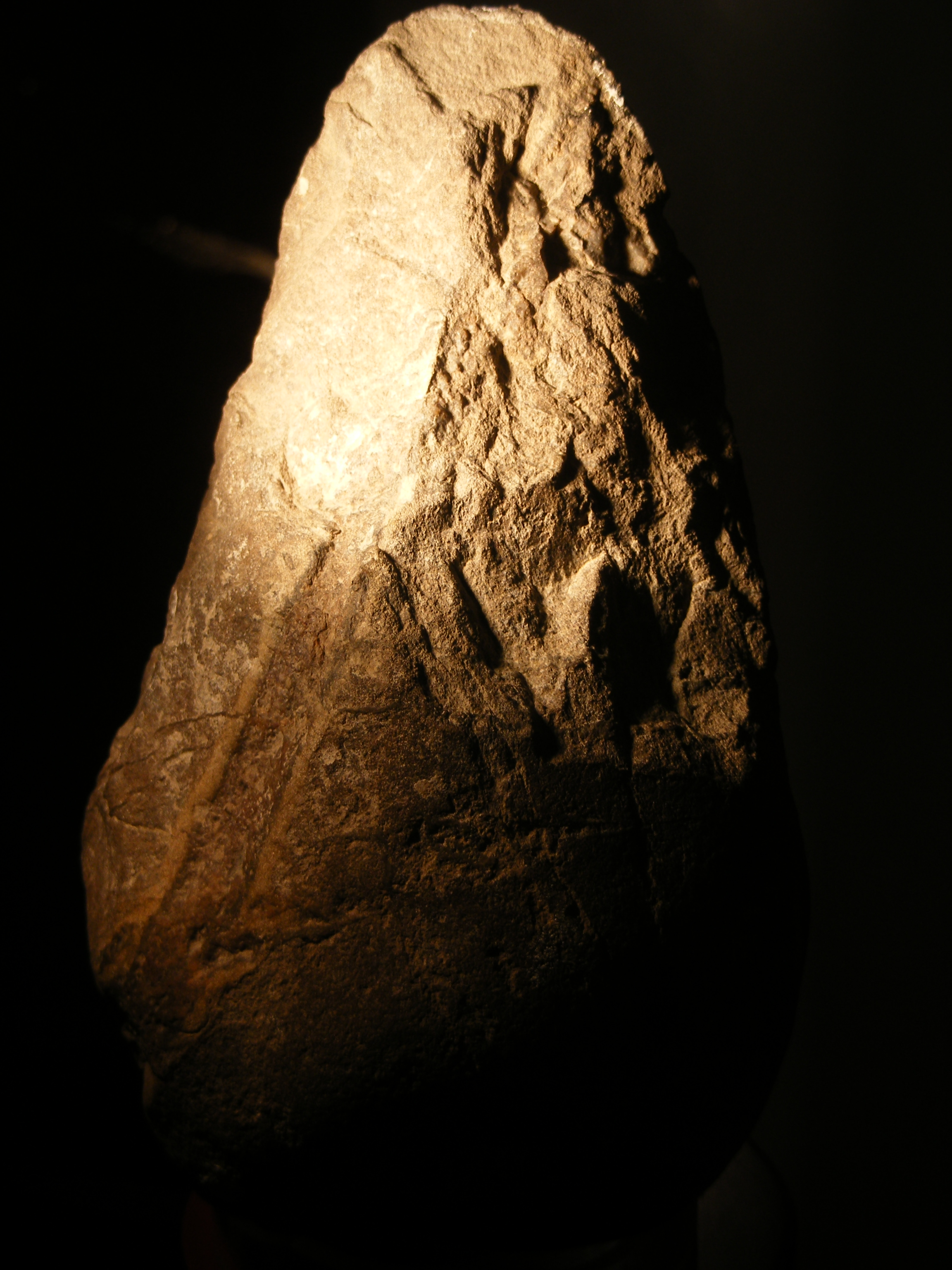 Pic del Montgrí